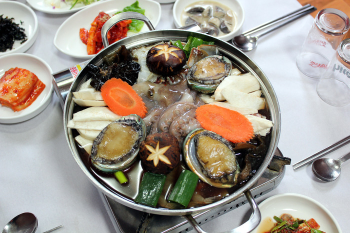 Jeonboknakjijeongol (abalone and octopus hot pot)